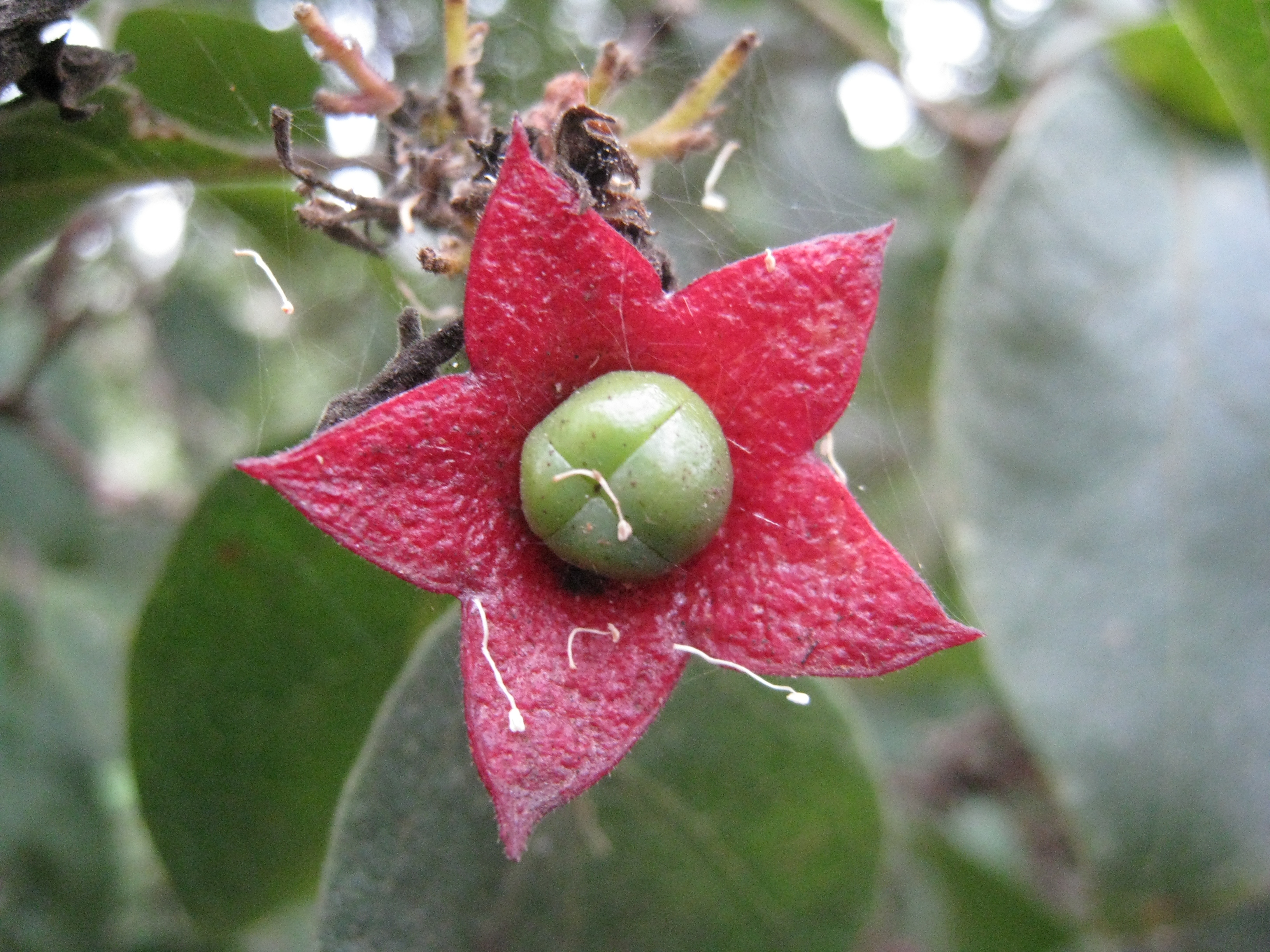 Flower and fruit of the Hairy Clerodendrum (Clerodendrum tomentosum). Paruna Reserve, Como NSW Australia, January 2010.